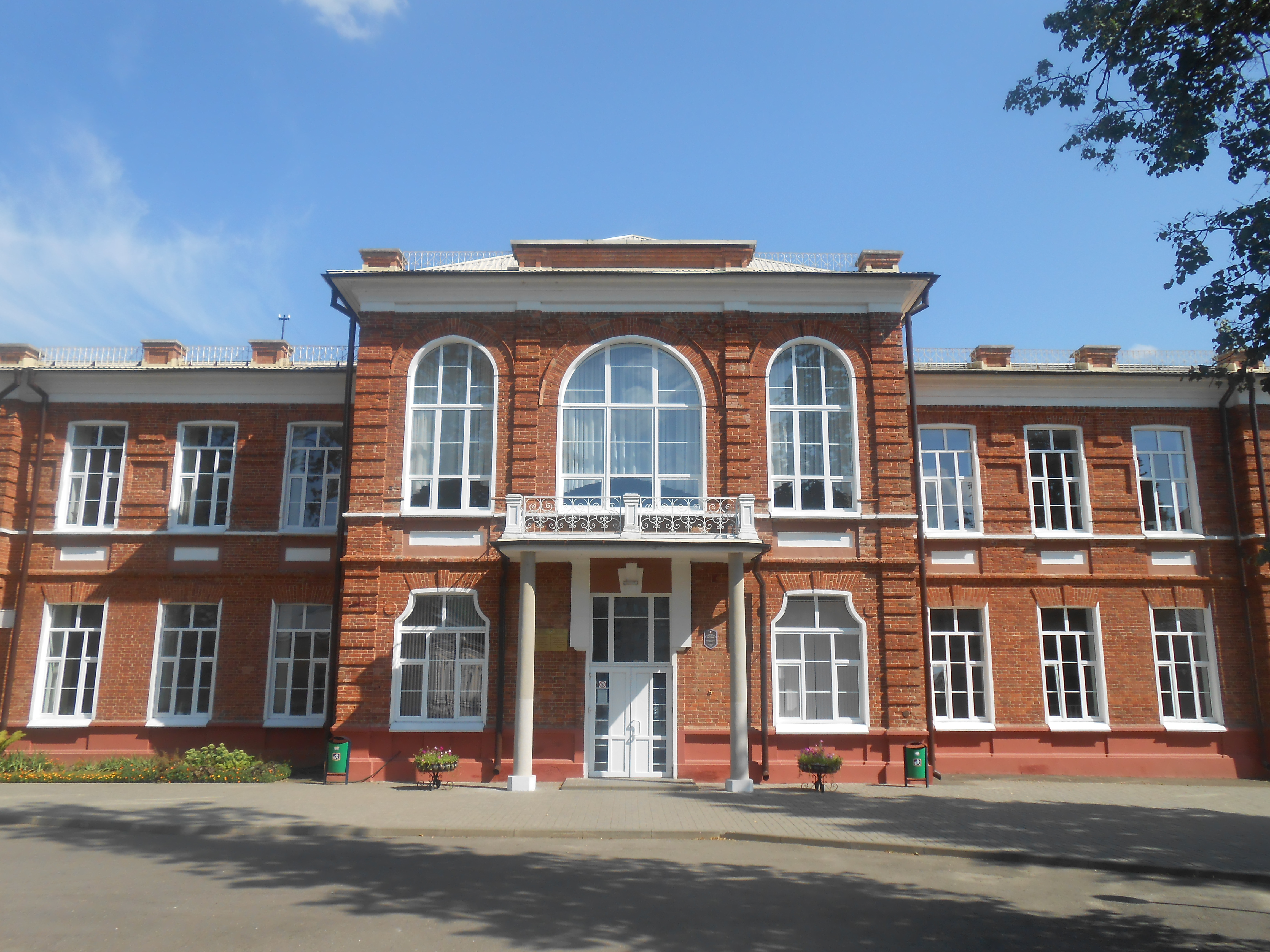 Lenina 41 in Orsha